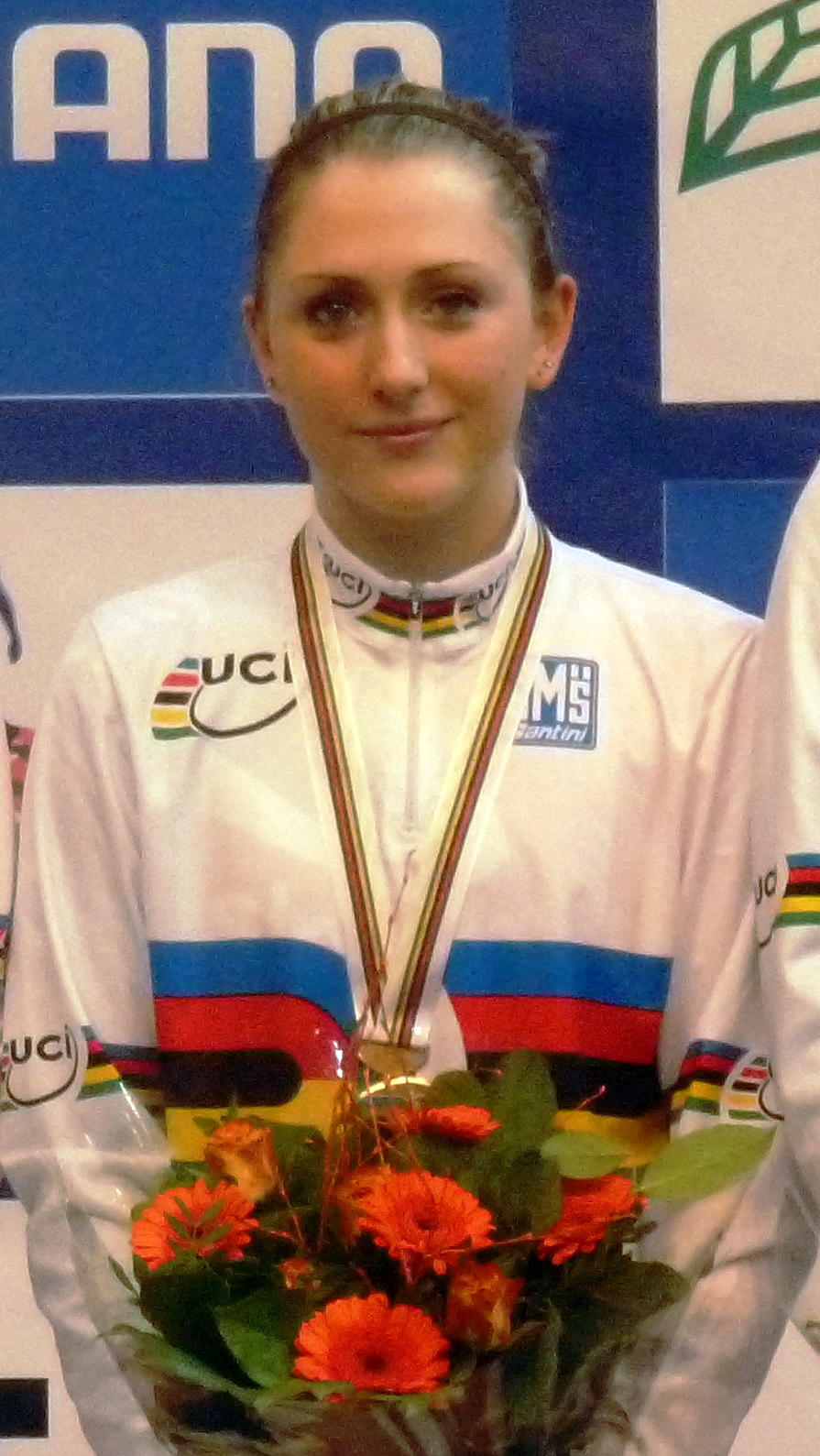 Laura Trott, british track cyclist